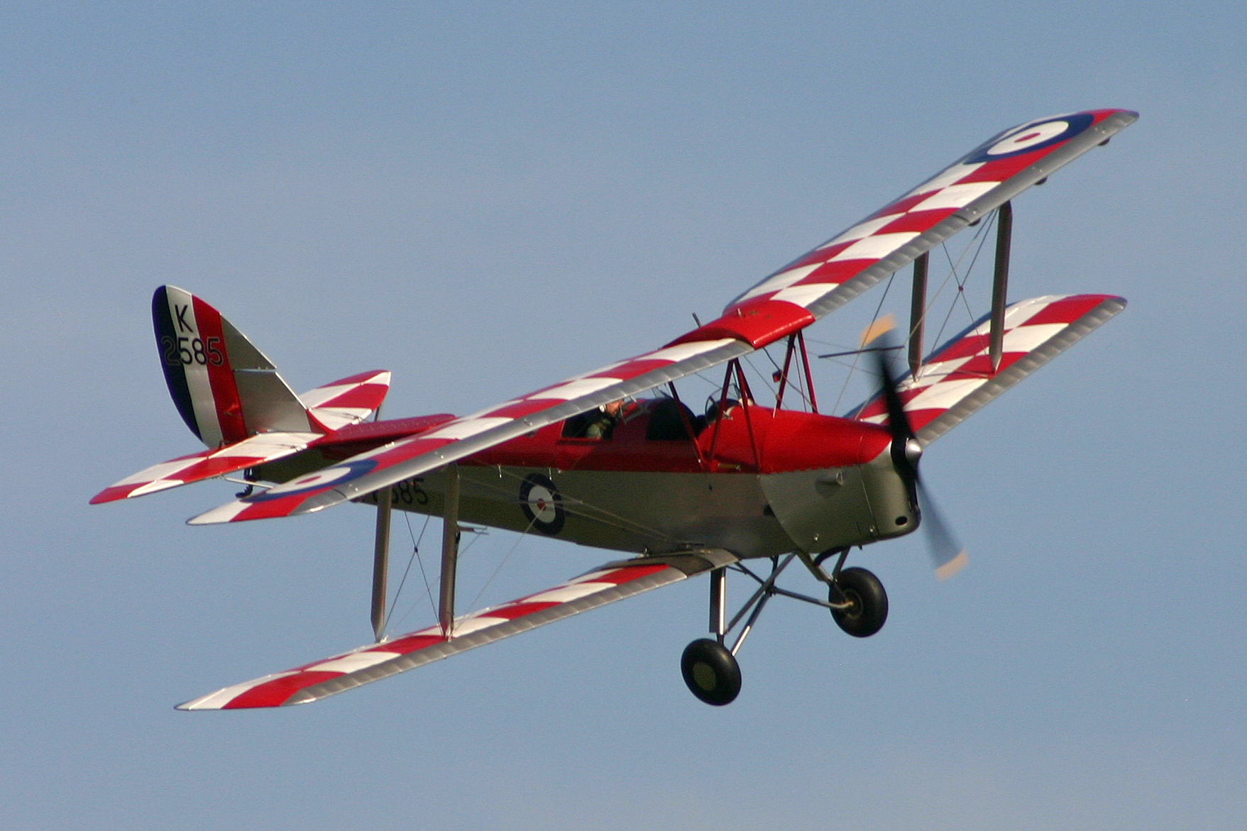 Really ex RAF 'T6818'. msn 85087. Displaying as part of the 'Flying Circus' routine. Old Warden 02-10-2011